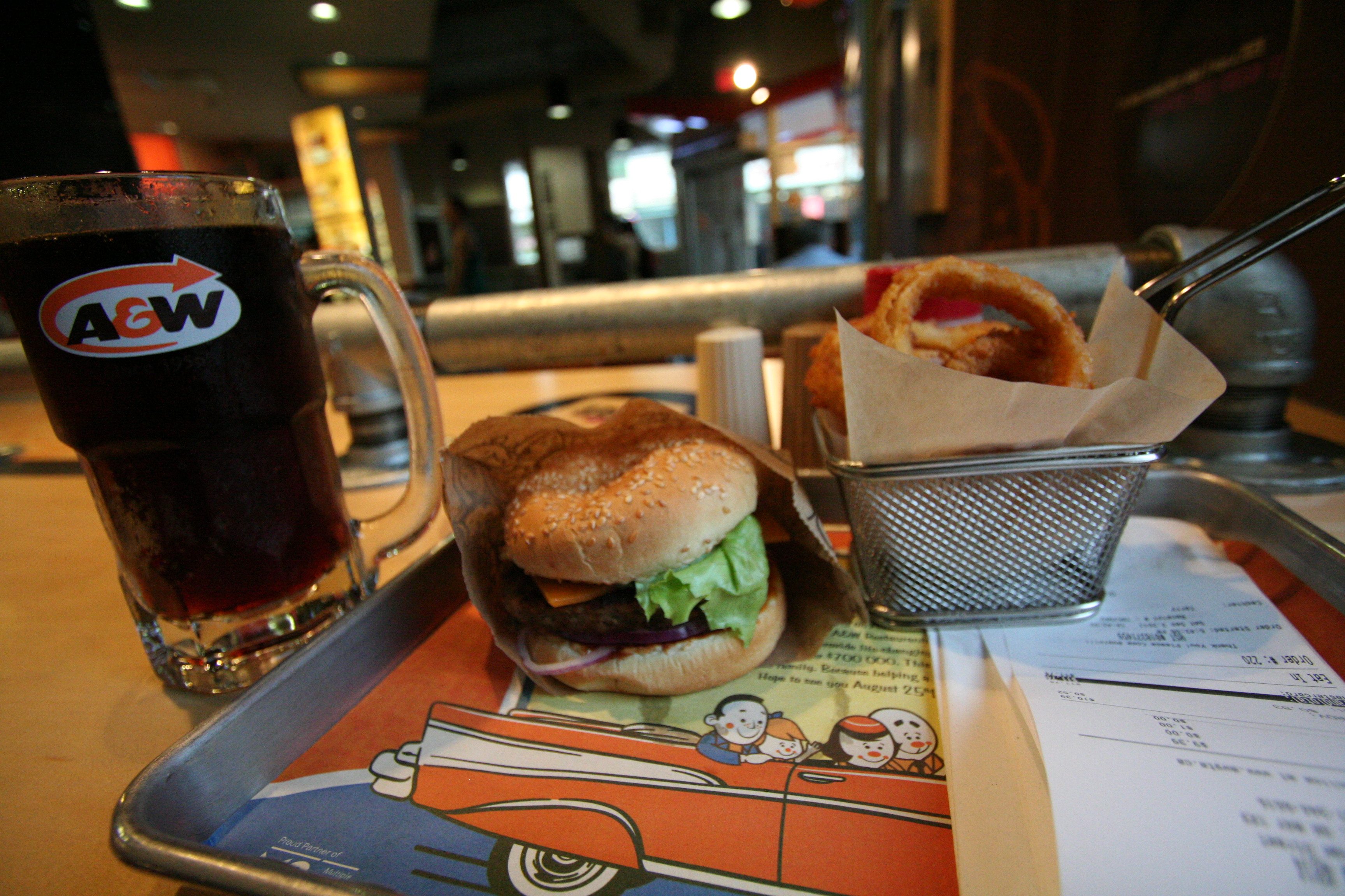 A&W Canada Restaurant Menu; Root Beer, Uncle Burger & Onion Rings